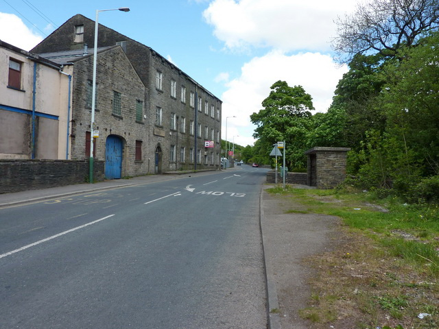 Photograph of Broadclough Mill, Bacup, Lancashire